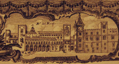 Palacio del Real de Valencia. Engraving from when this palace existed.